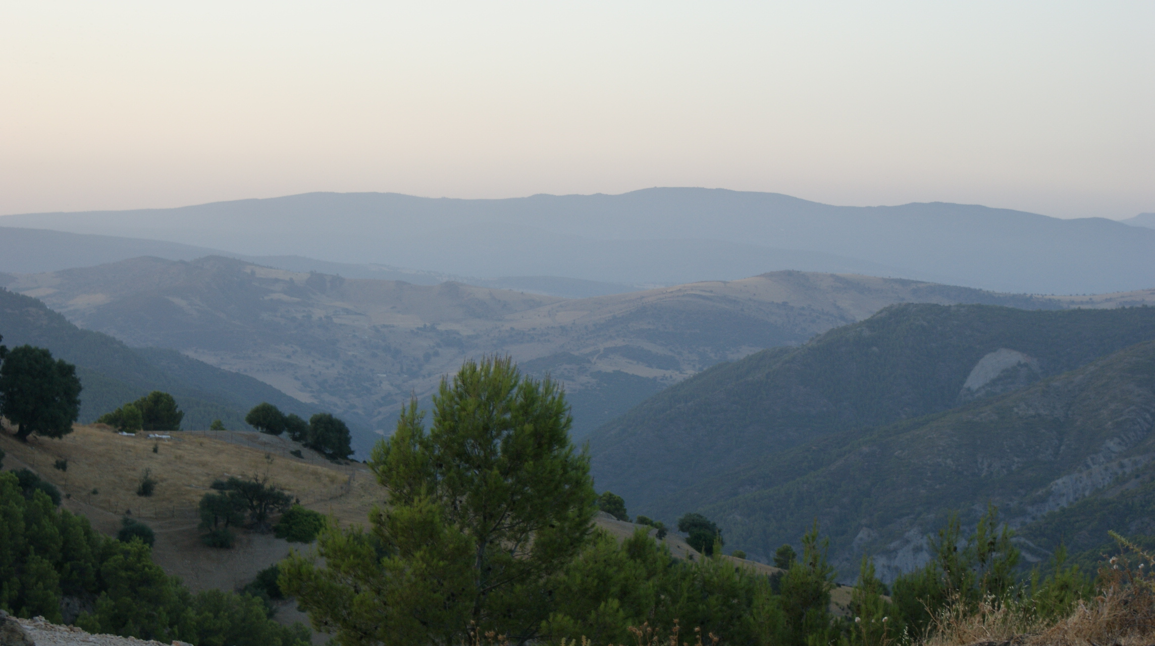 Ouled Moumen mountains